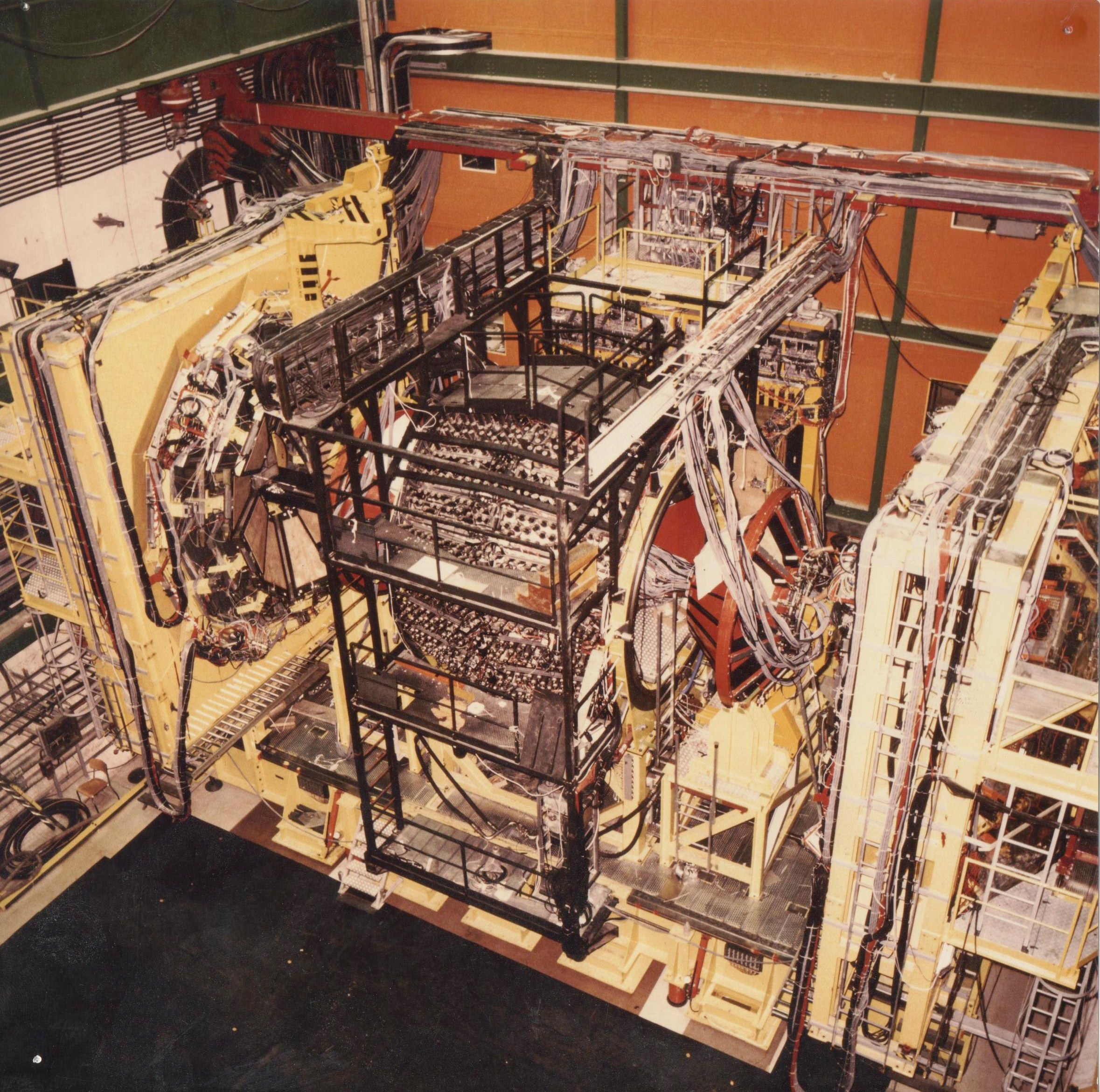 The UA2 experiment at the CERN SPS Collider in 1982, showing the central calorimeter and the two endcaps in open position